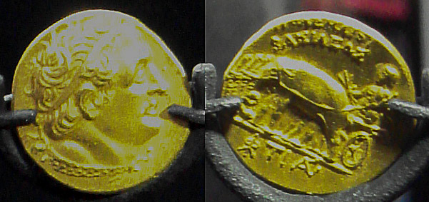 A rare coin of Ptolemy I, showing himself riding a chariot drawn by elephants, a reminder of his successful campaigns with Alexander in India. Displayed at the Grand Palais. Personal photograph 2006.